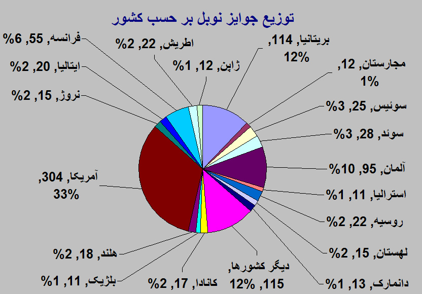 Distribution of Nobel Prizes by country. Language is in Persian (Farsi). The number is the number of total prizes won by that country. The percentage is out of the total sum of all countries. Prizes given to International organizations were not counted. All counts were up to and including 2007. However since one person may be claimed by more than one country, the counts overlap and the total value is not exact. So the percentage figure is not really a precise figure, but is only good as a ball park figure. I made this with Excel, and the source for the figures is from